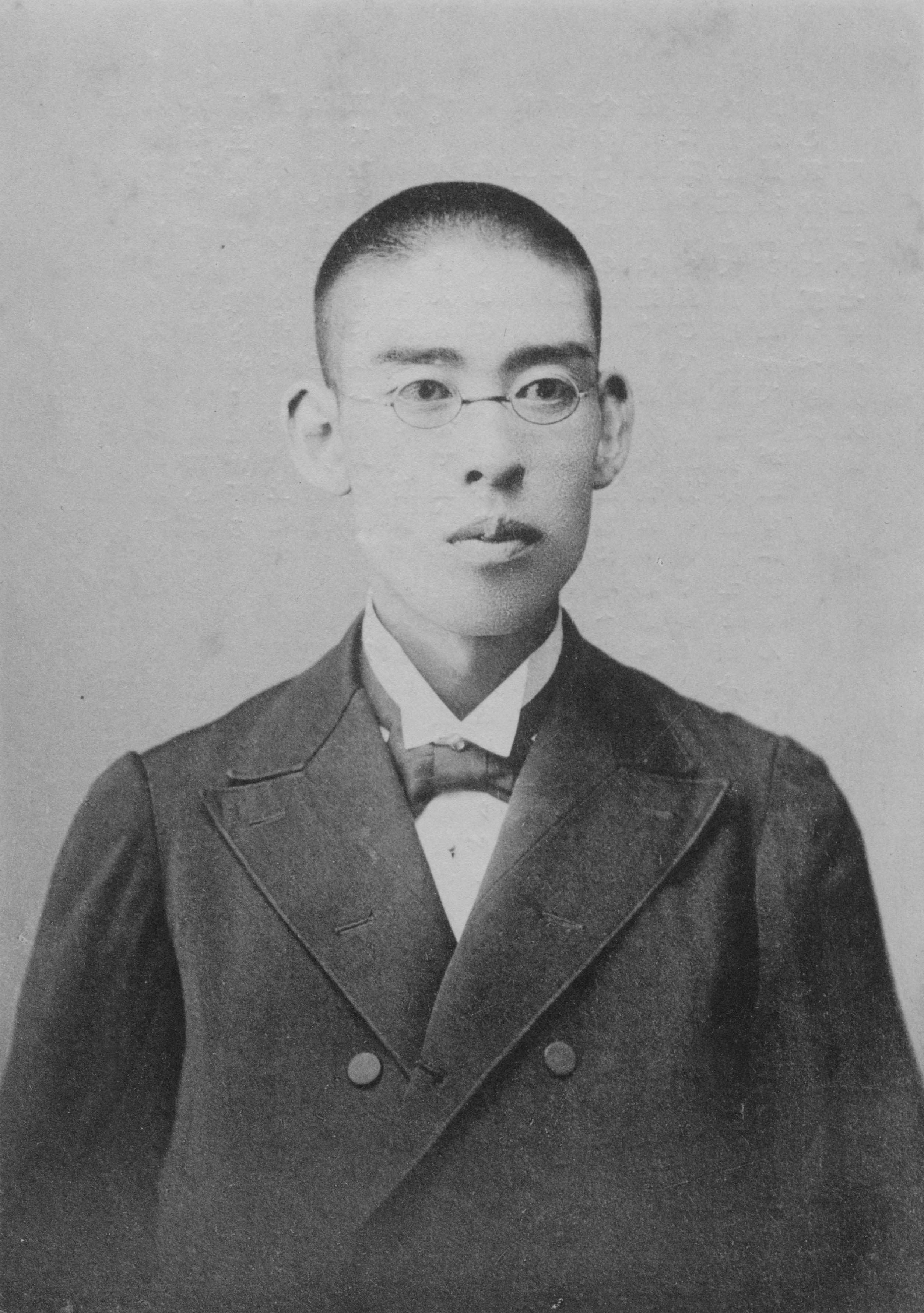 Yoshimaru Kanie.